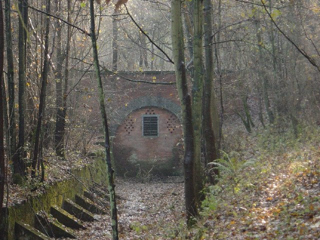 Burdale Tunnel North Portal, south south west of Wharram-le-Street, North Yorkshire, England.This is the bricked up portal of Burdale Tunnel on the Malton and Driffield branch of the North Eastern railway which was closed in 1956. The Southern portal can be seen in Ian Lavender's photo 30840 at SE8663.